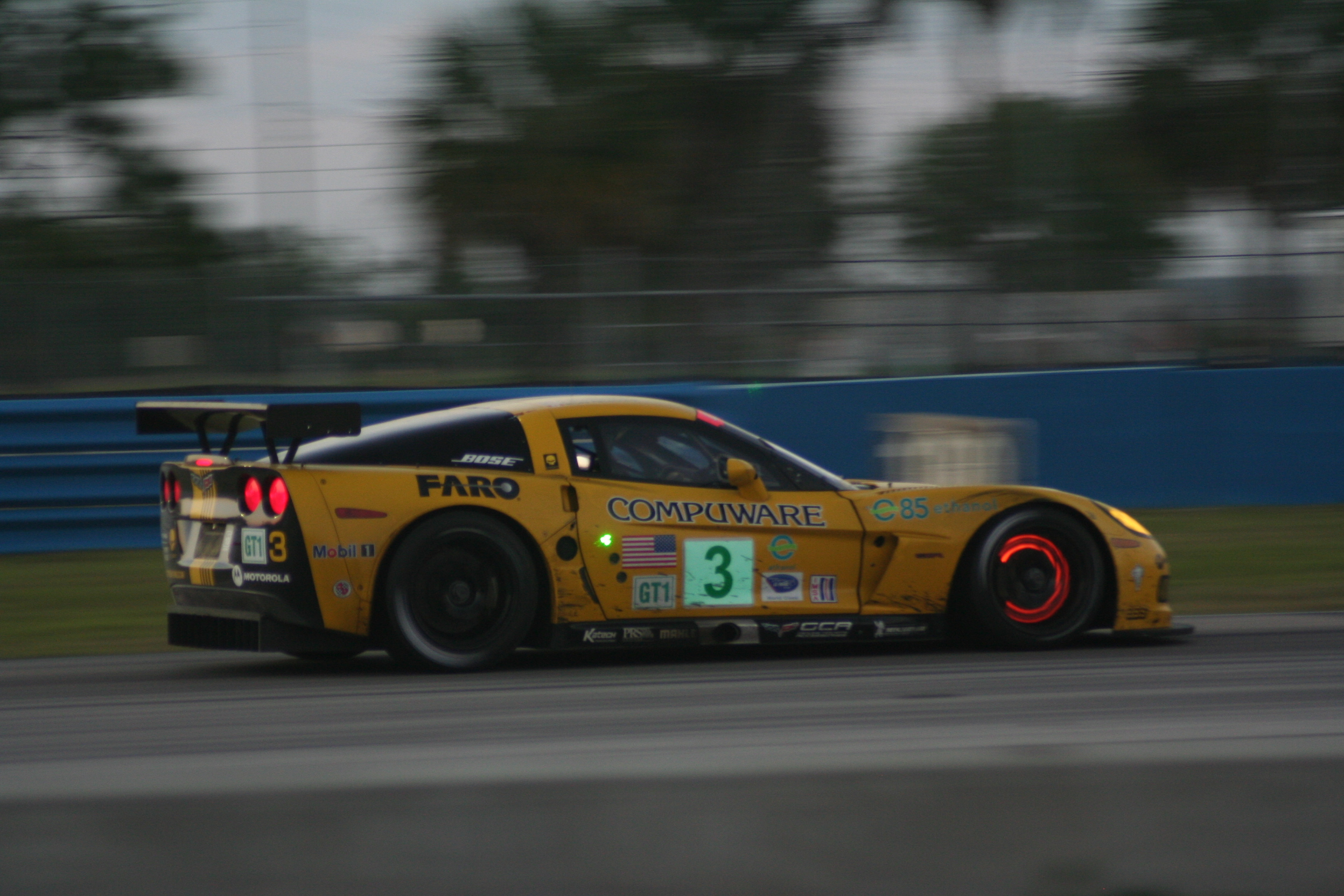 The GT1 class winner. Shot by "The Daredevil" at the 2008 12 Hours of Sebring event